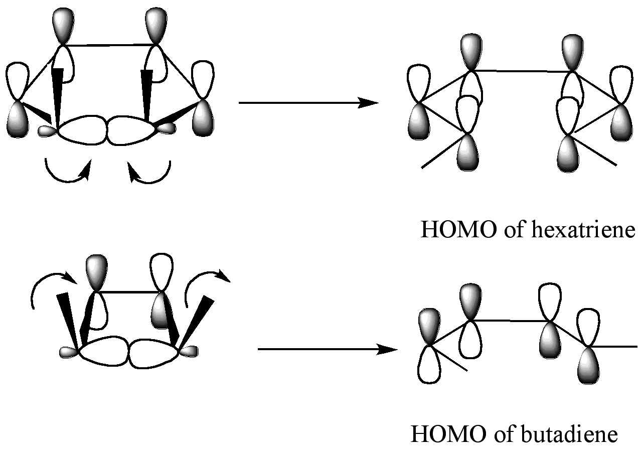 Frontier Molecular Orbital Theory to explain stereospecificity of electrocyclic reactions